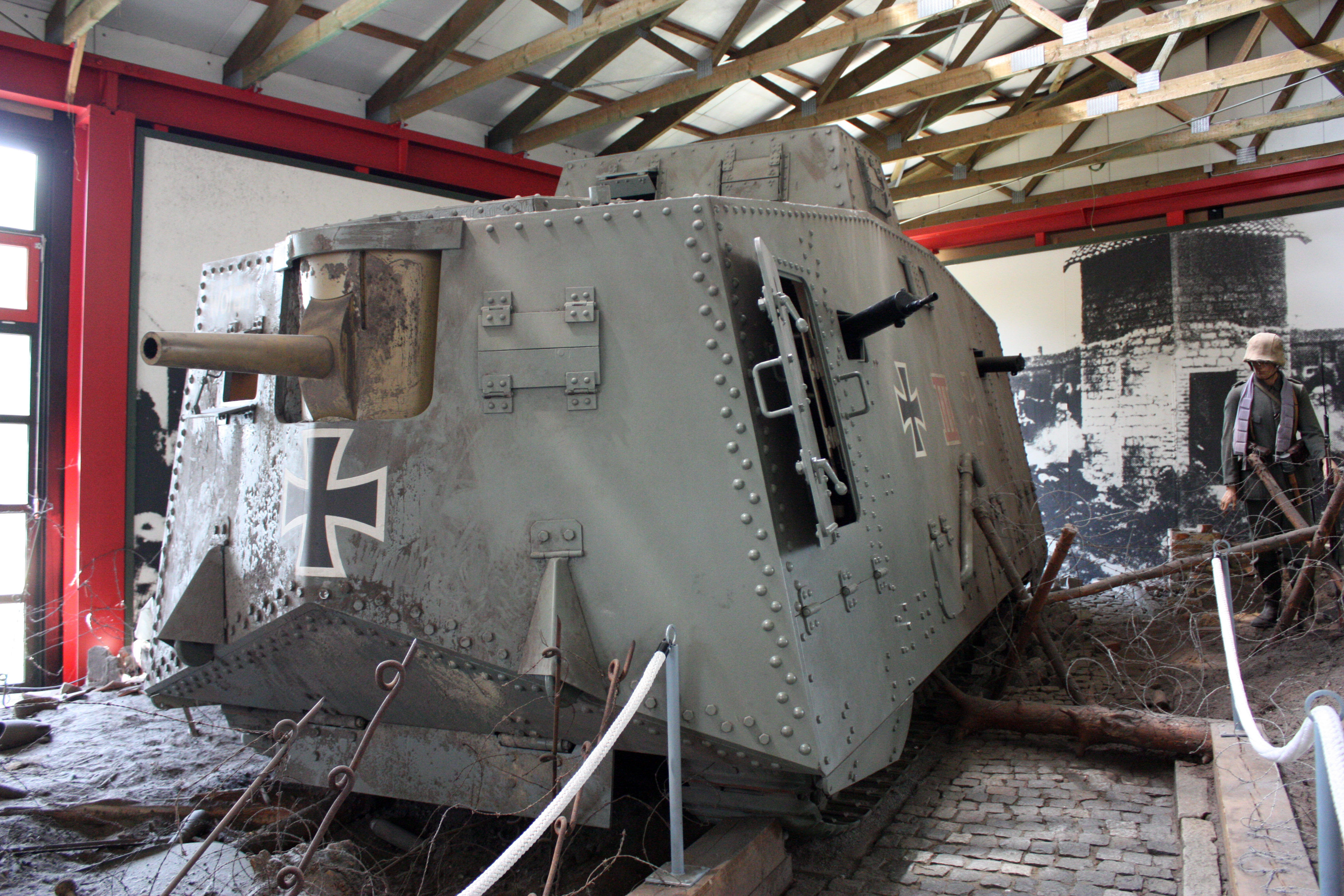 German Tank Museum